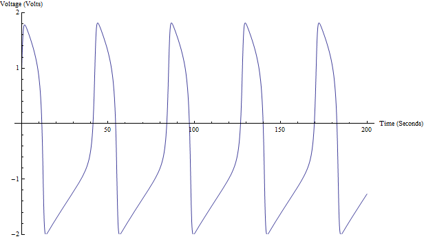 V(t) Time domain graph of Fitzhugh-Nagumo model with I=.5, a=.7 b=.8 tau=12.5